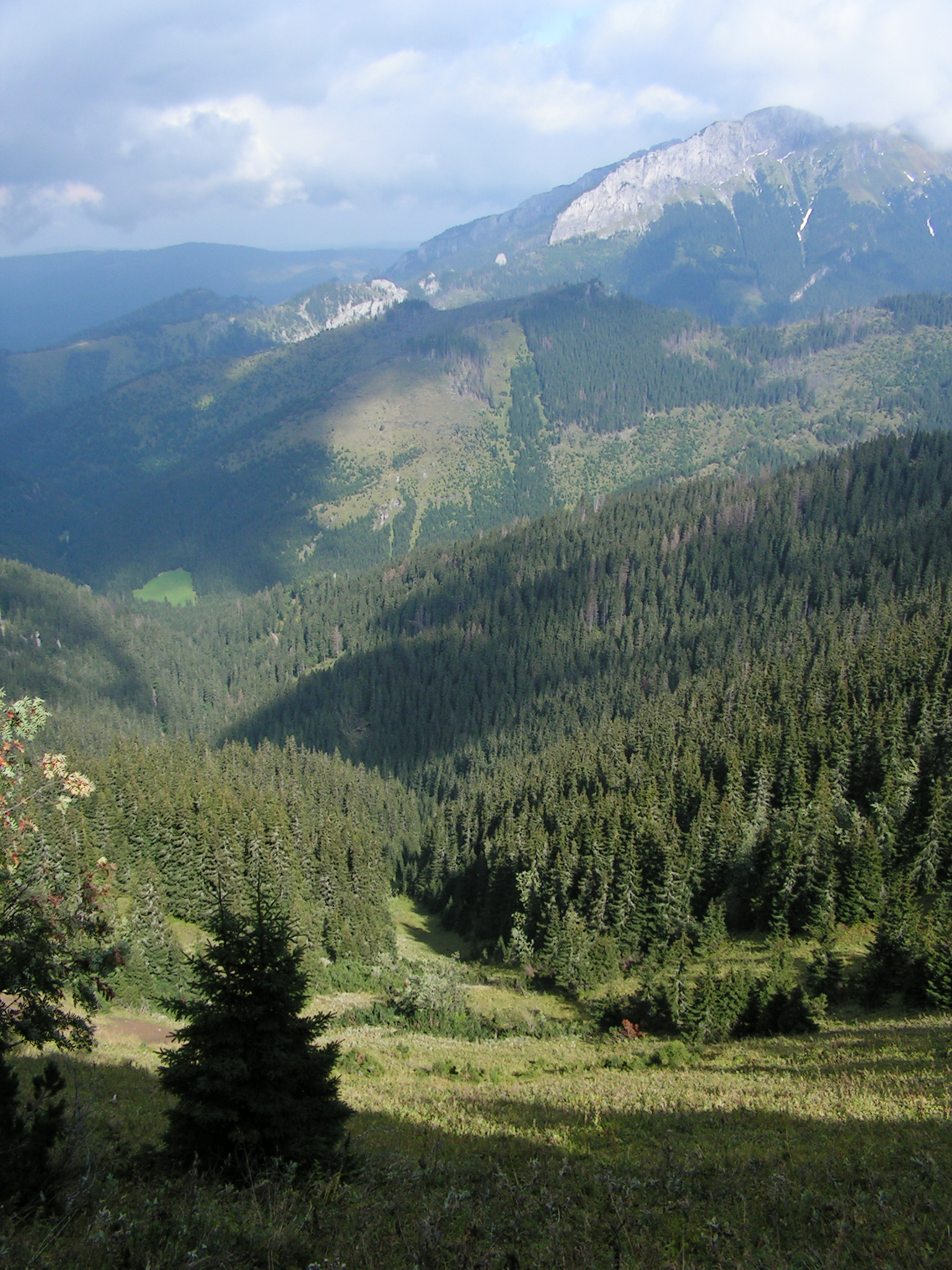 Medvedí žľab in Široká dolina